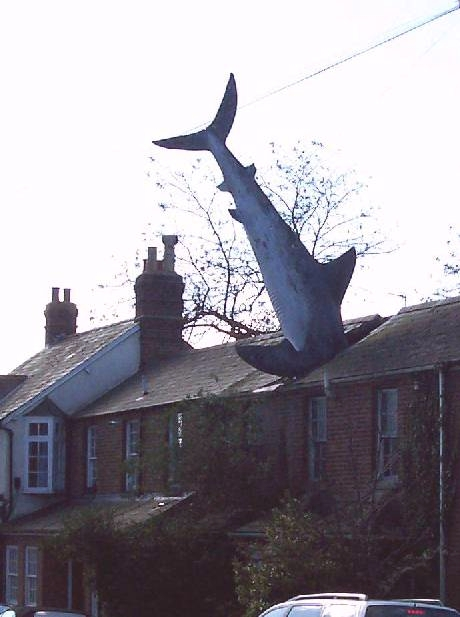 Photo taken by me of the Oxford Shark (If anyone can sort the brightness/contrast balance on this out, please do so. -- SGBailey 09:55, 2005 Feb 20 (UTC))